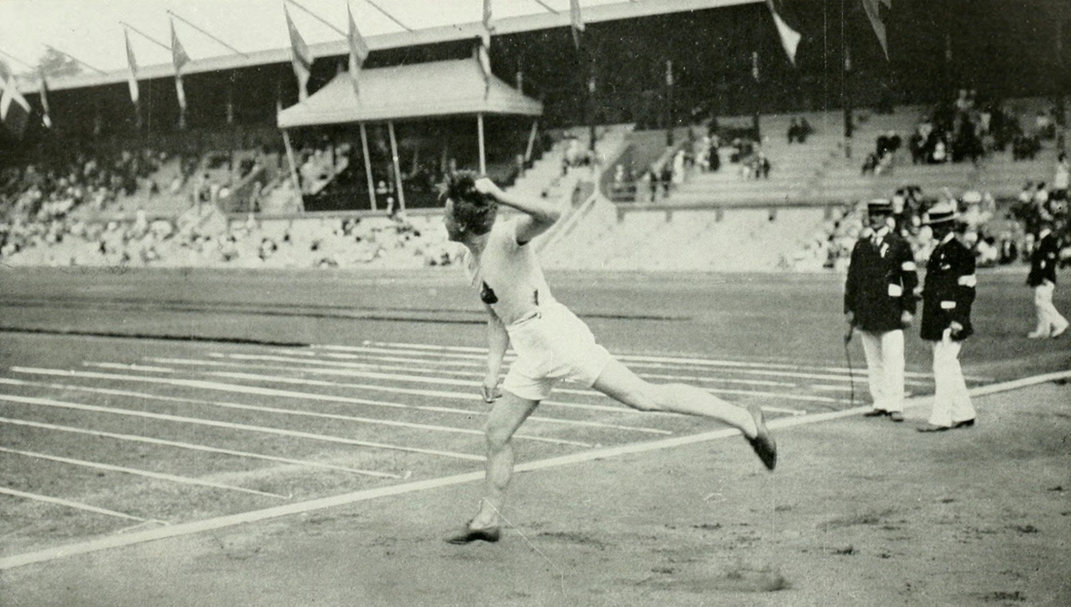 Juho Saaristo during the javelin throw competition at the 1912 Summer Olympics